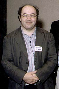 Stephen Wolfram, British scientist.